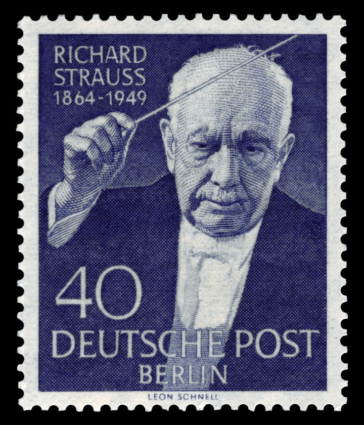 5th day of death of Richard Strauss (1864-1949) Graphics by Leon Schnell Ausgabepreis: 20 Pfennig First Day of Issue / Erstausgabetag: 18. September 1954 Michel-Katalog-Nr: 124 (Berlin)